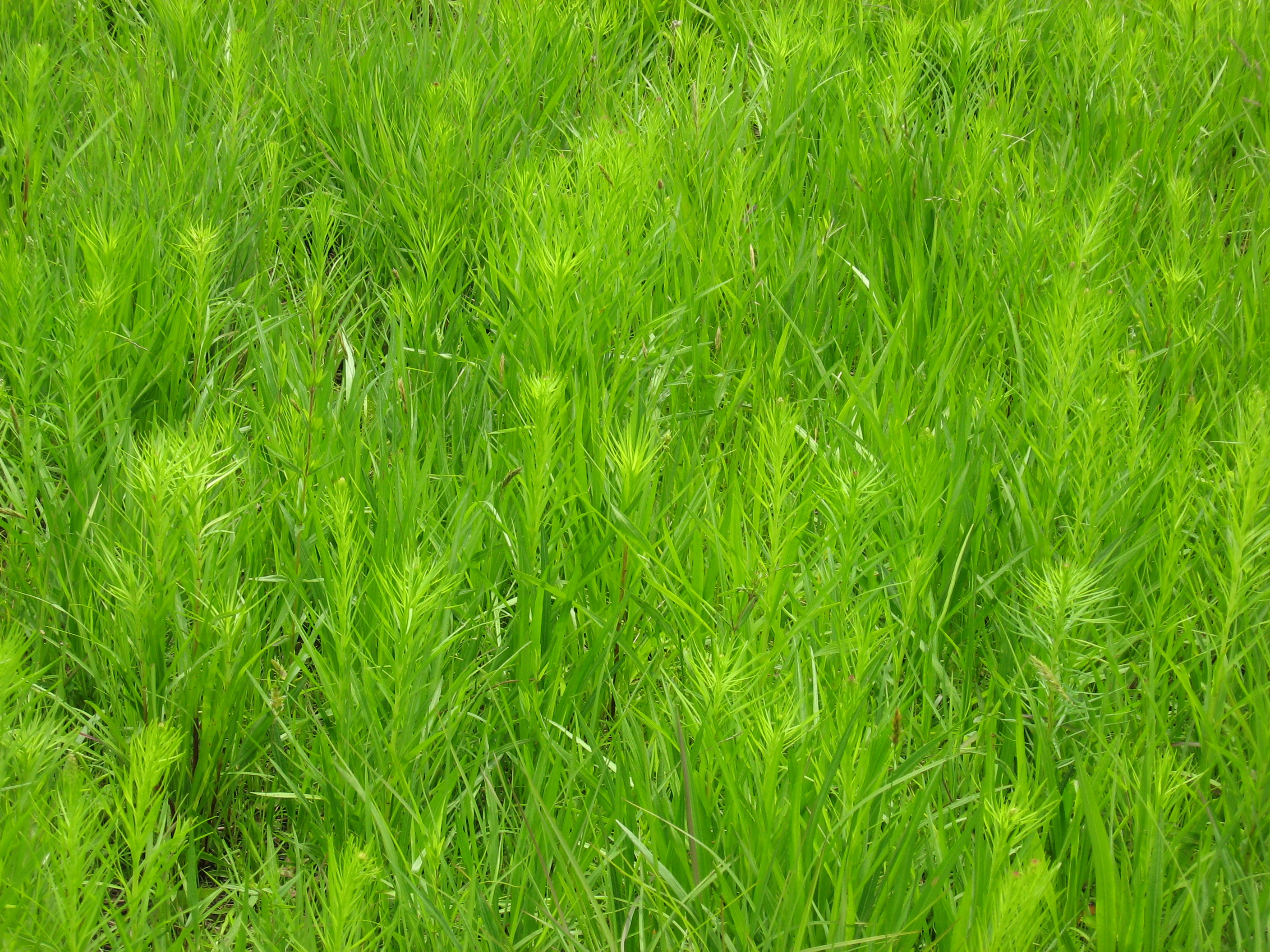 A picture of Liatris spicata.